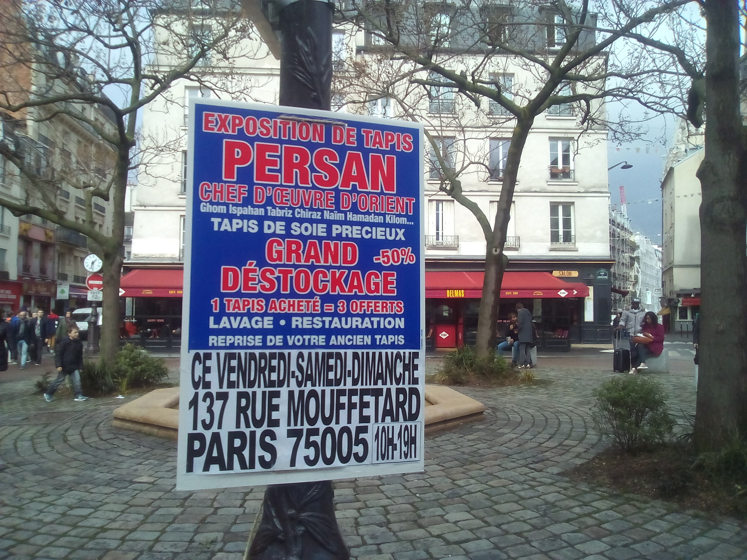 Place de la Contrescarpe / 75005 Paris / FRANCE - advertising